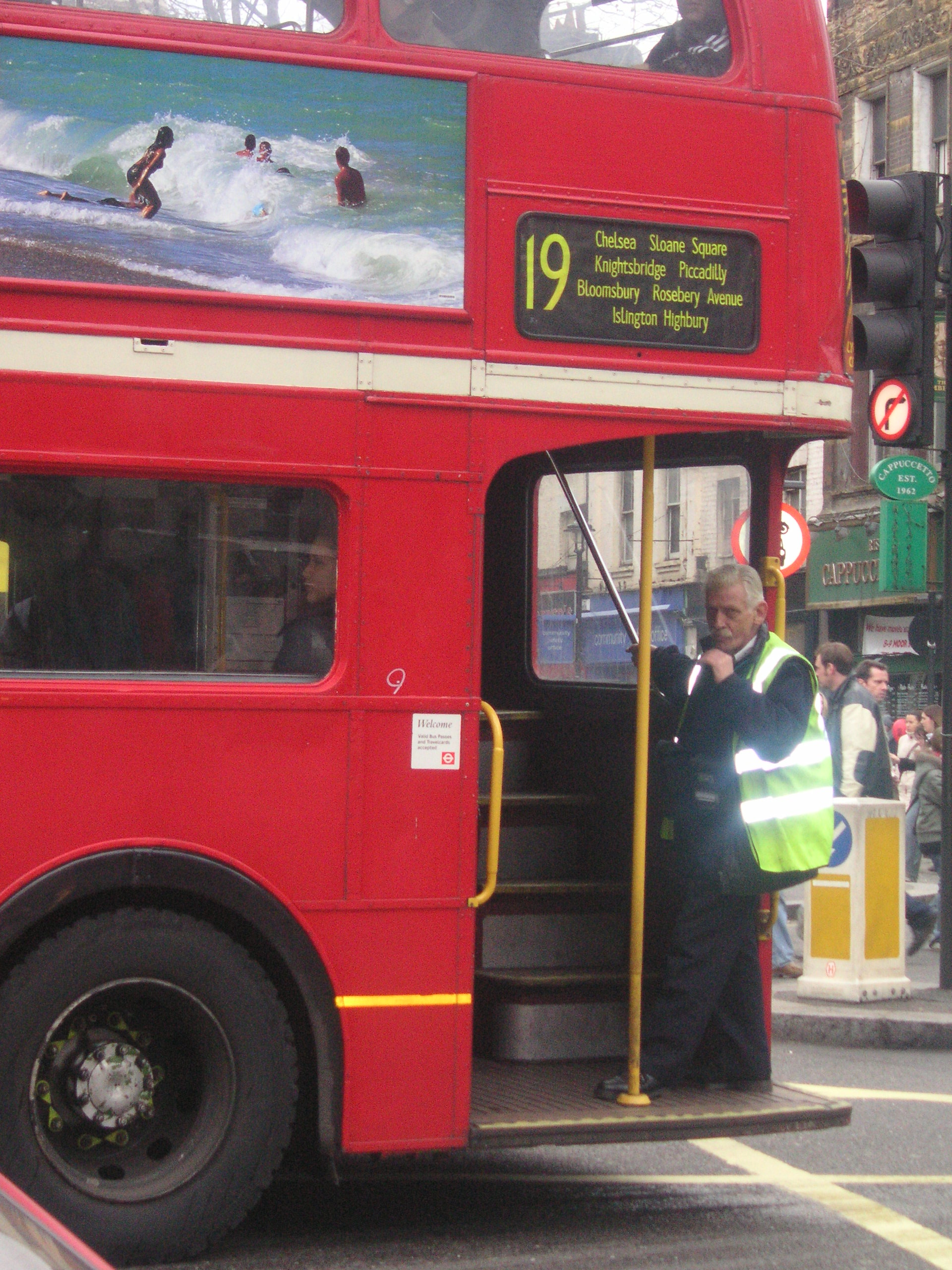 A conductor on Arriva London Routemaster RM 54 (LDS 279A) on route 19 in Charing Cross Road, London, England.